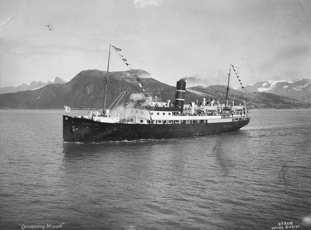 Norwegian coastal express ship (Hurtigruten) DS Dronning Maud built in 1925. Norsk (bokmål): Hurtigruteskipet DS «Dronning Maud», bygd i 1925.